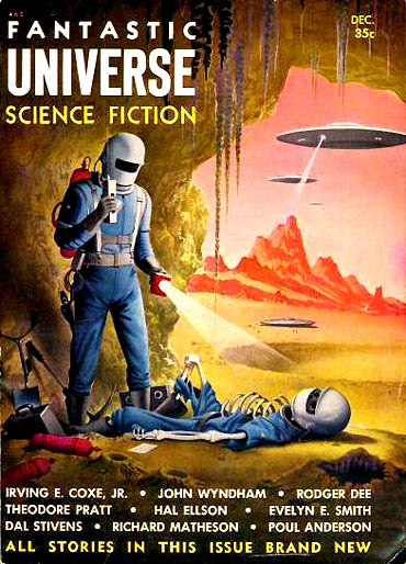 Cover of Fantastic Universe, December 1954